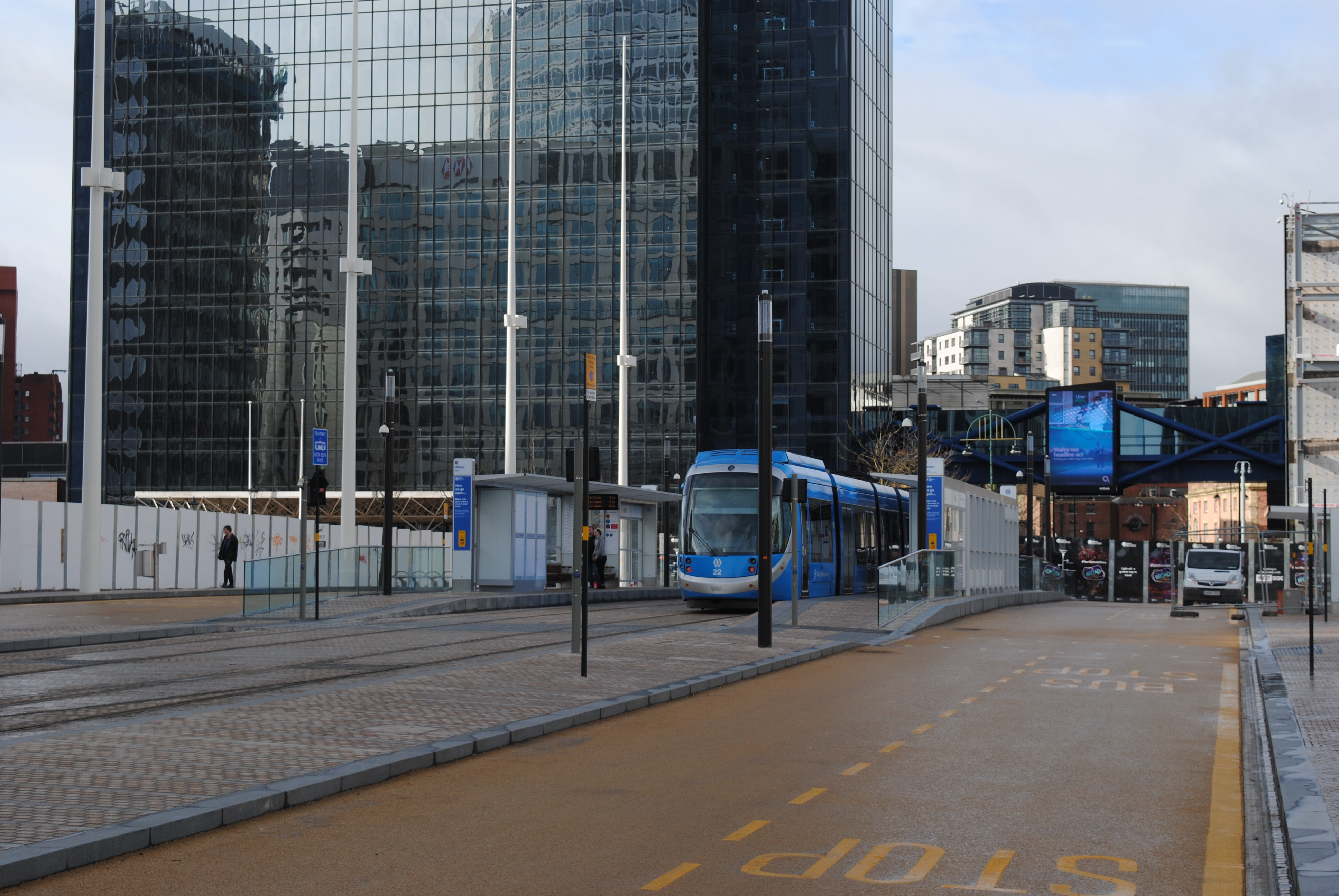 West Midlands Metro, Library terminus